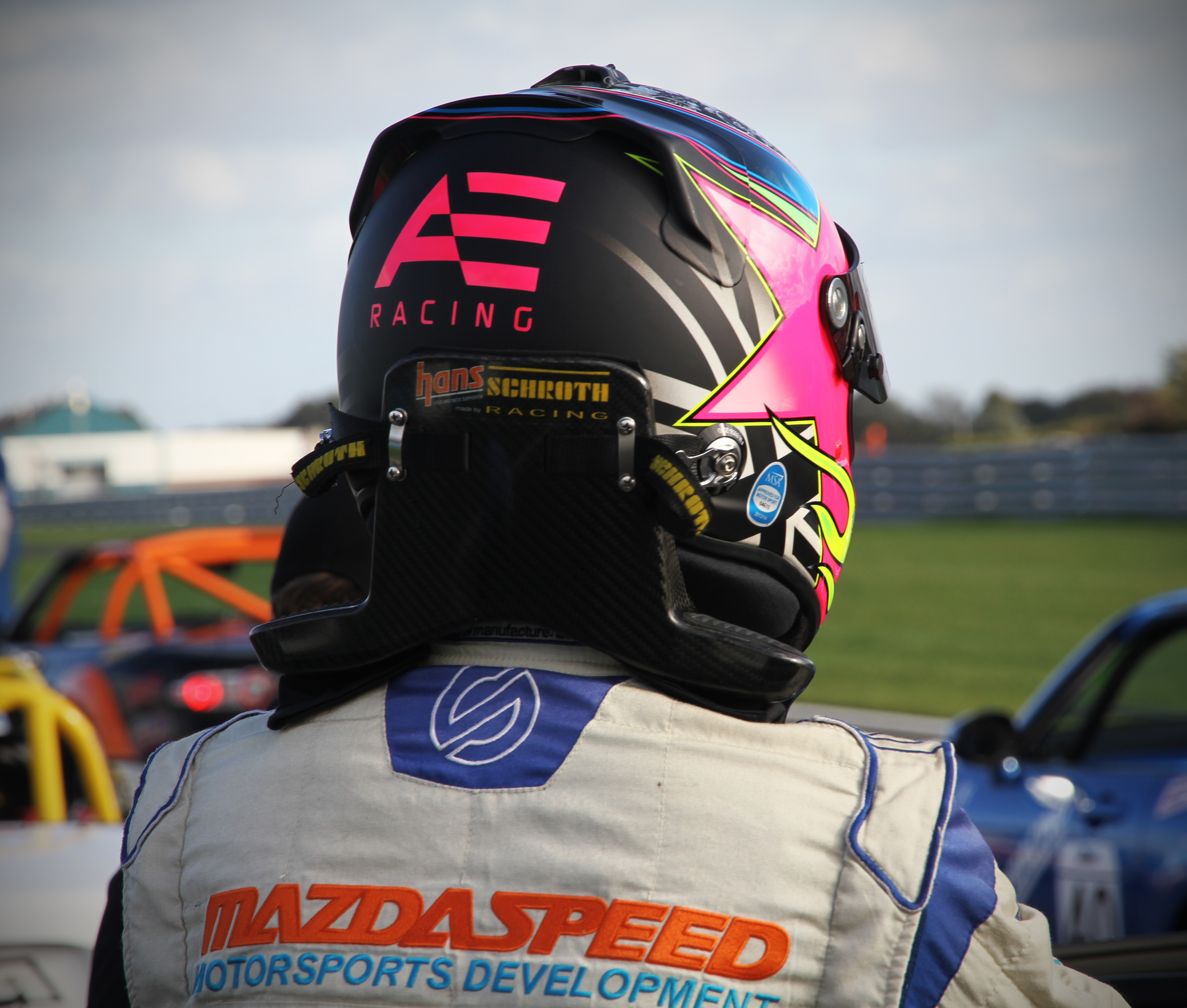 Abbie Eaton Helmet Shot